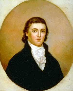 Early American military and political figure Thomas Posey (1750 - 1818.